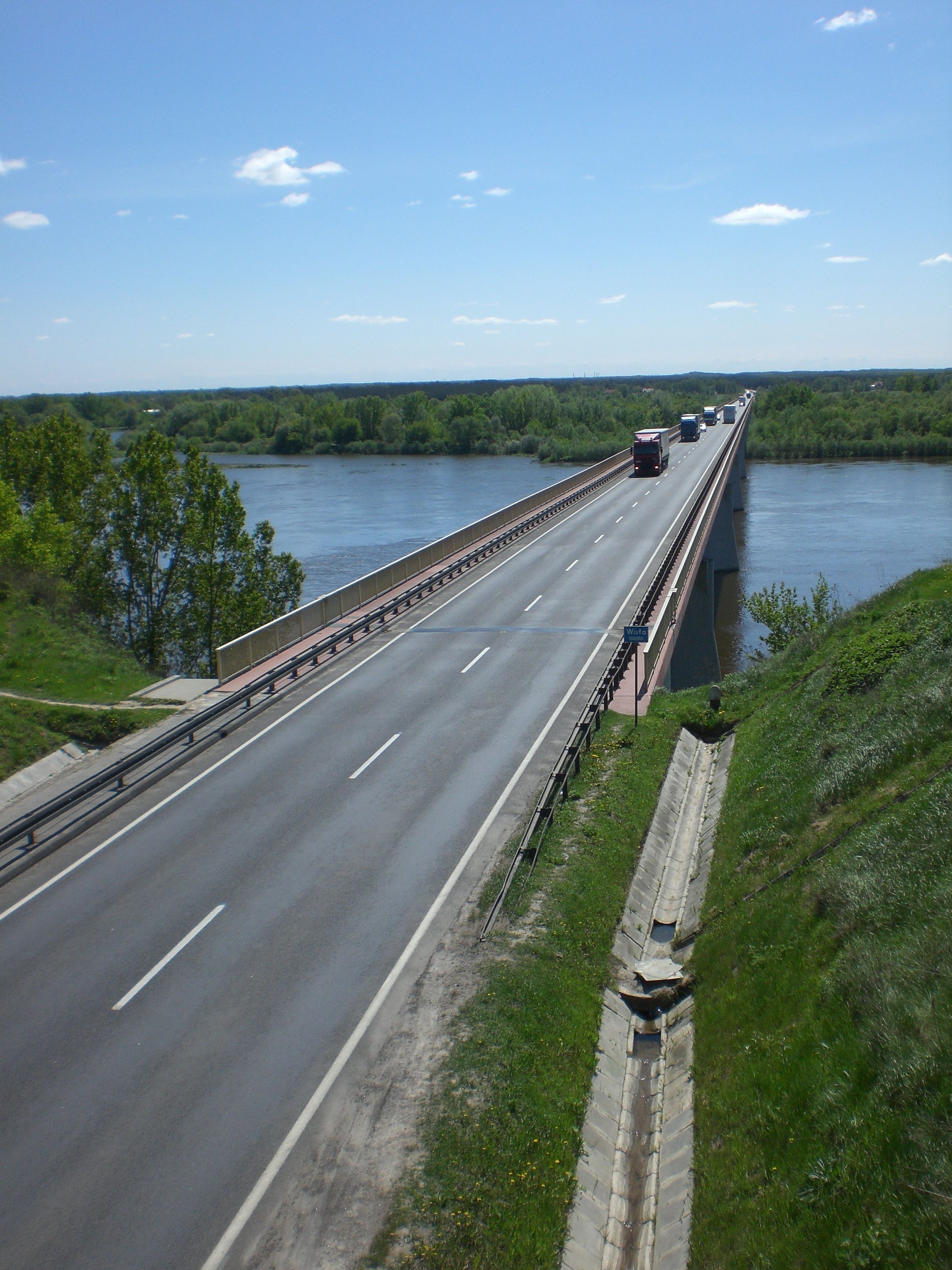 Bridge over the Vistula in Wyszogród